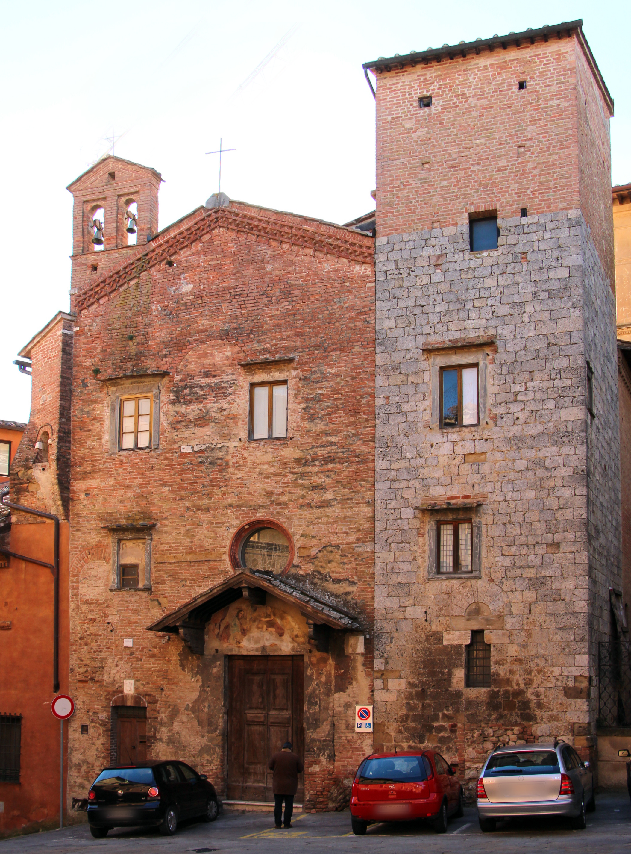 Via di San Quirico (Siena)